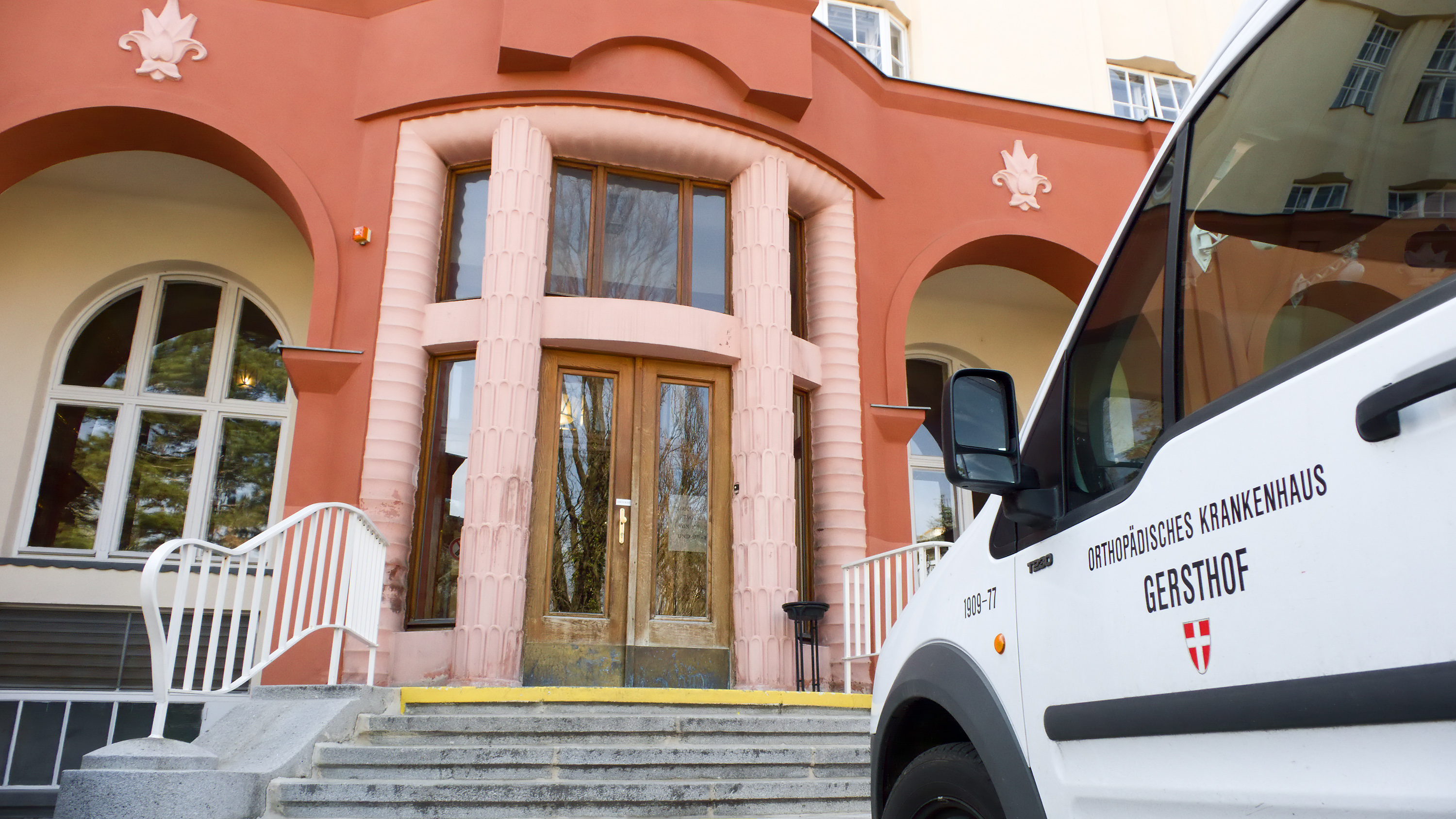 Hospital Orthopädisches Krankenhaus Gersthof in Vienna Währing